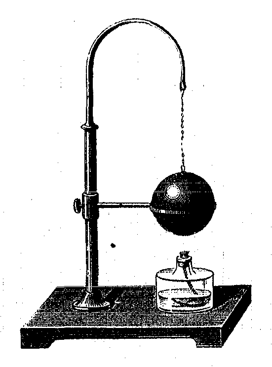 Diagram of a Gravesande ring, an experiment demonstrating thermal expansion which is used in physics education. It consists of a small metal ball suspended from a stand by a chain. Below it is a metal ring. The ring is just big enough so when the ball and ring are at the same temperature, the ball can just fit through the ring. However, when the ball is heated by a spirit lamp as shown here, the metal expands and it's diameter increases, so it can no longer fit through the ring.